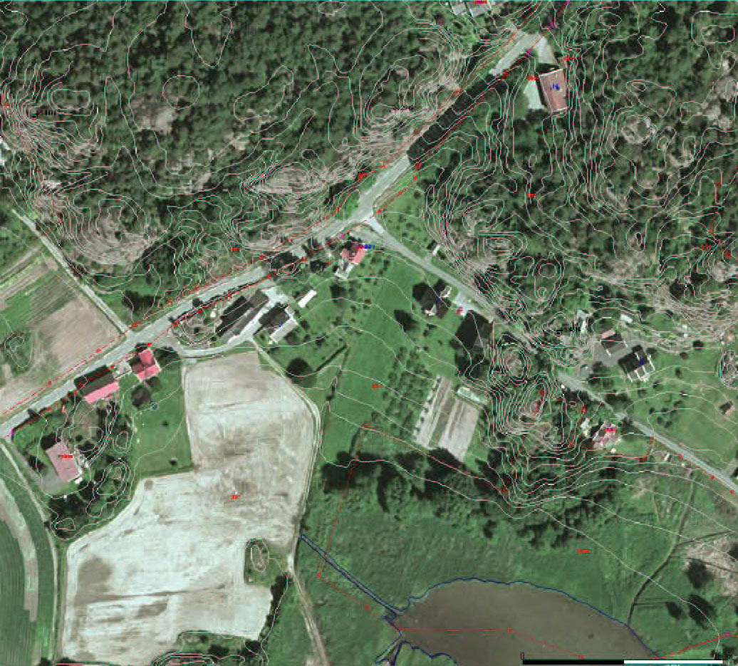 "Orthophoto" from Grimstad, Norway